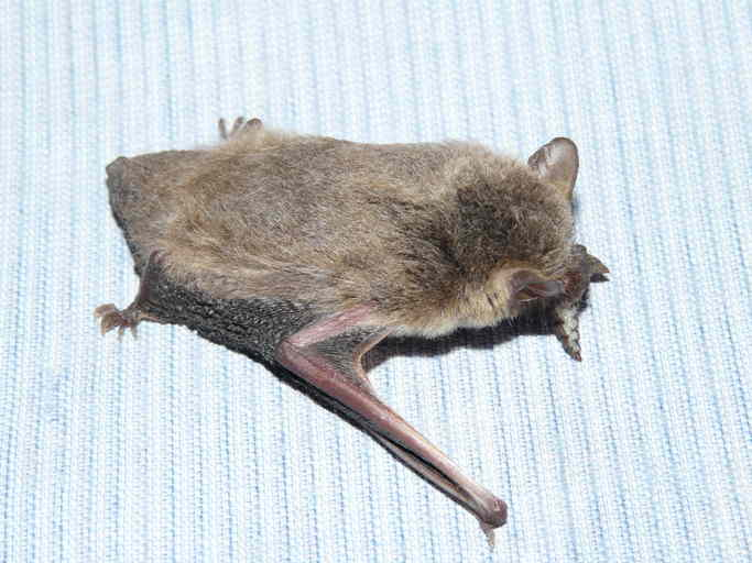 Pipistrellus capensis syn. Neoromicia capensis at Dambari Field Station (Matabeleland)